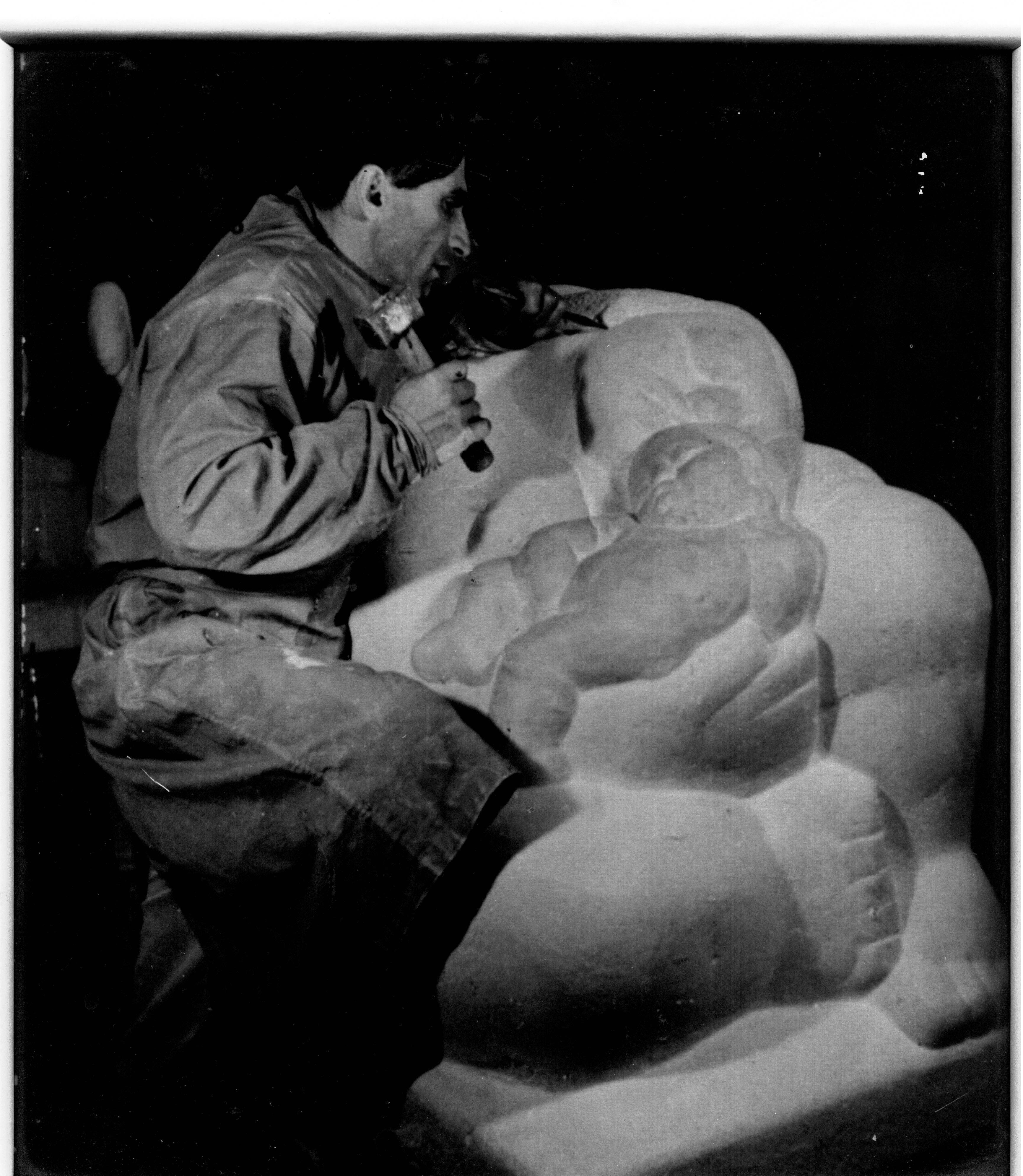 The sculpture work